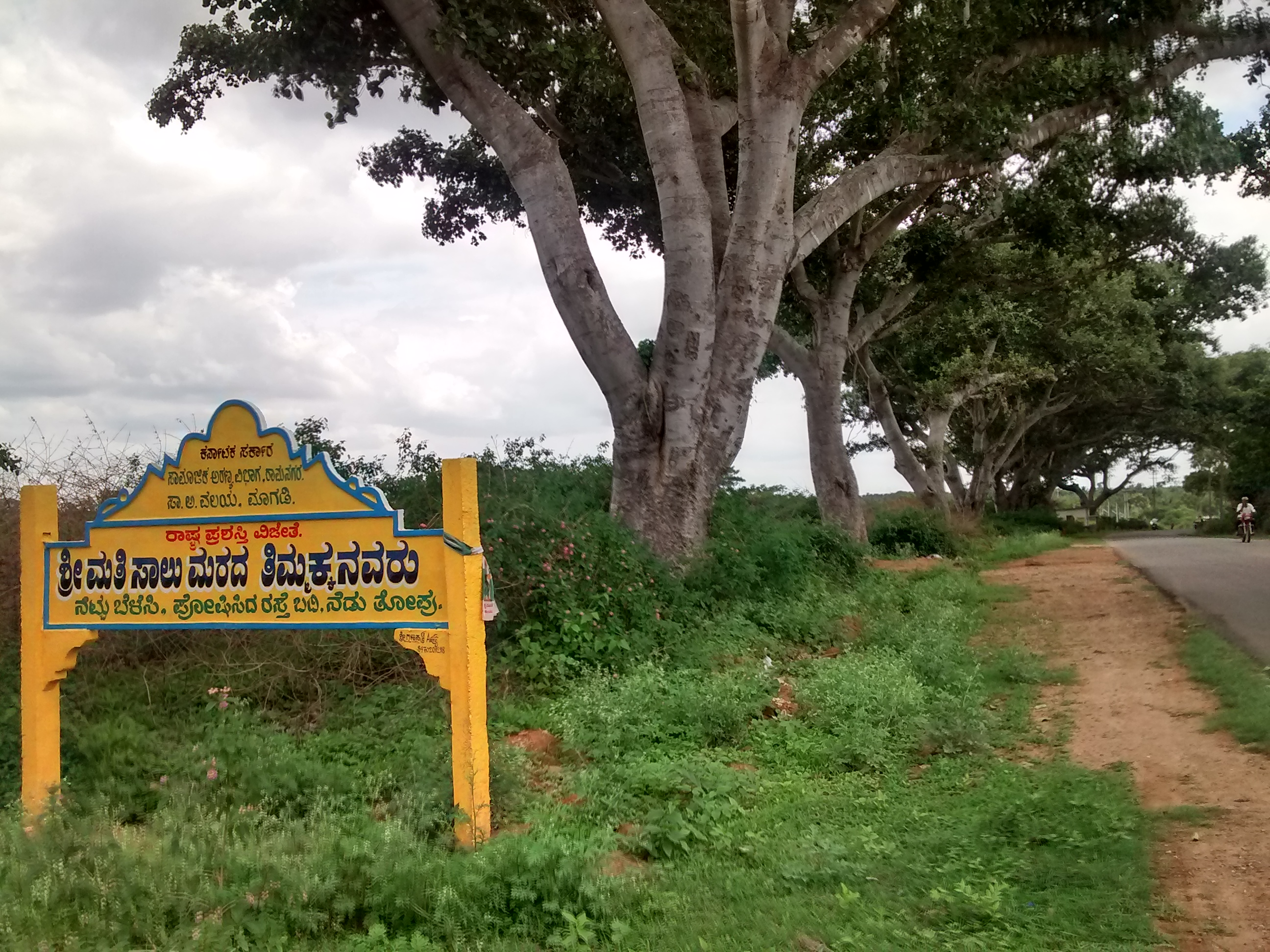 ಕನ್ನಡ: The image showing Saalumarada Thimmakka name and her trees behind near Kudur to Hulikal highway.